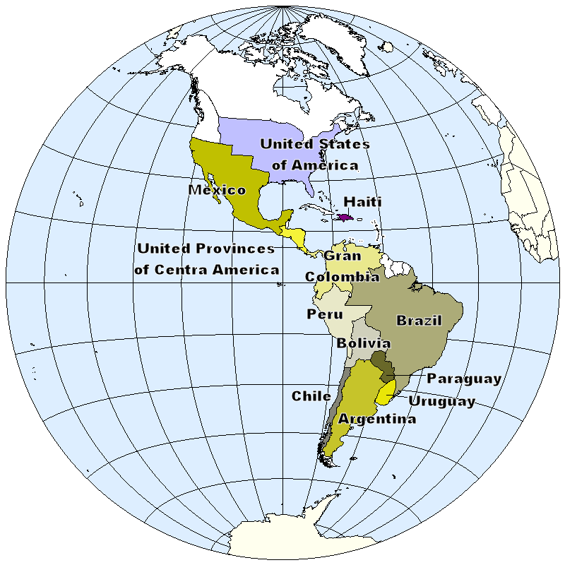 Made by Gsd2000 from